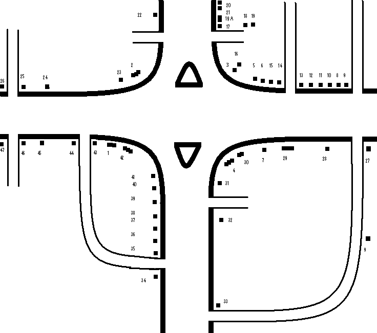 Entronque de Herradura